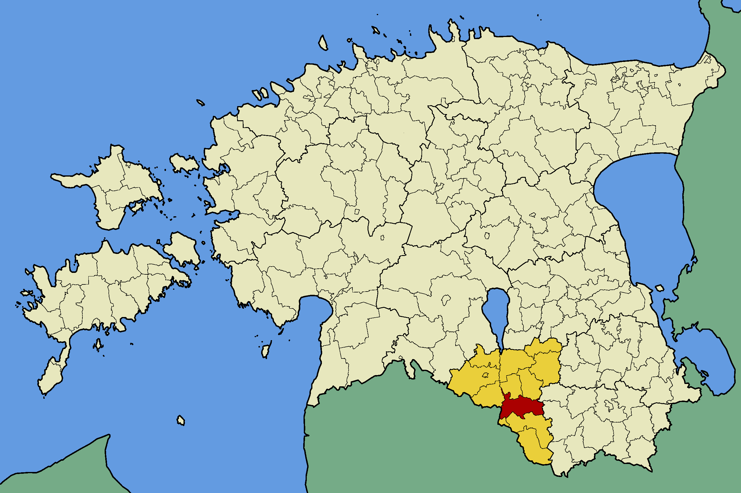 Map of Estonia with borders of municipalities (parishes). Valga county and Tõlliste municipality emphasized.